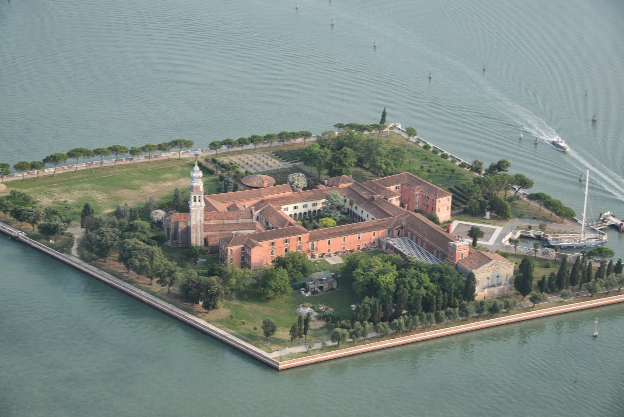 Aerial photographs of Venice